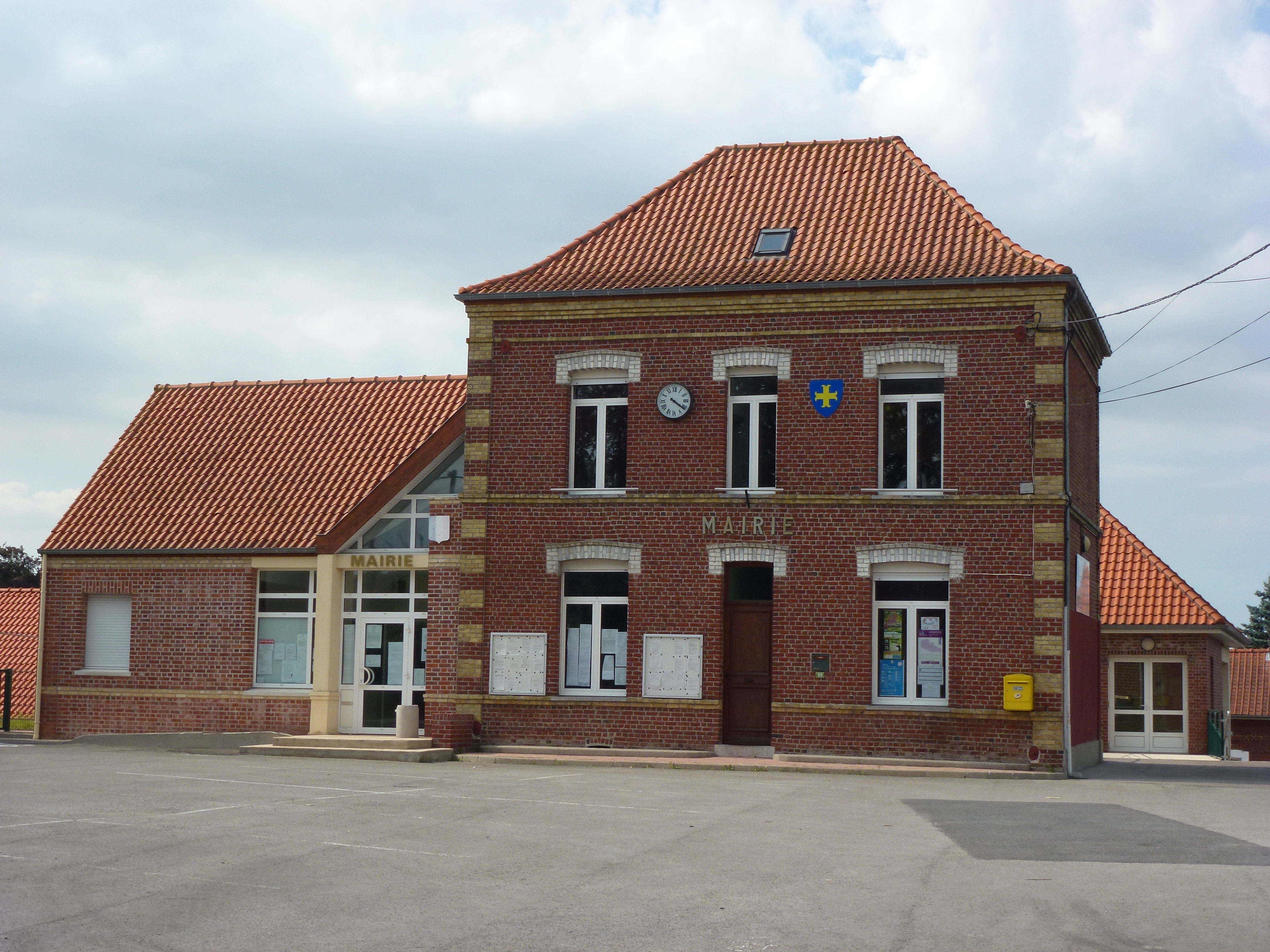 Nordausques (Pas-de-Calais) mairie